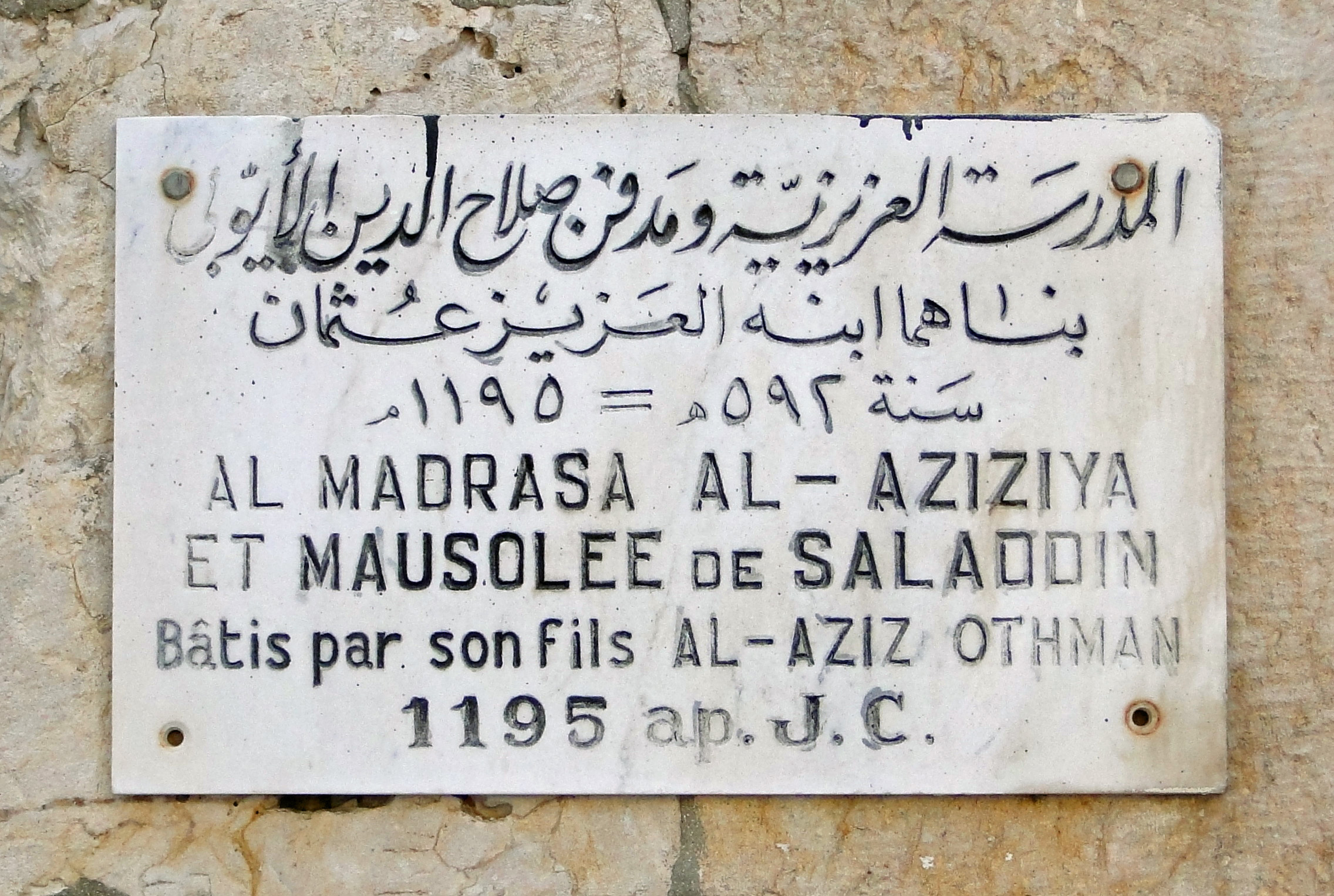 Plaque of Mausoleum of Saladin, Damascus, Syria